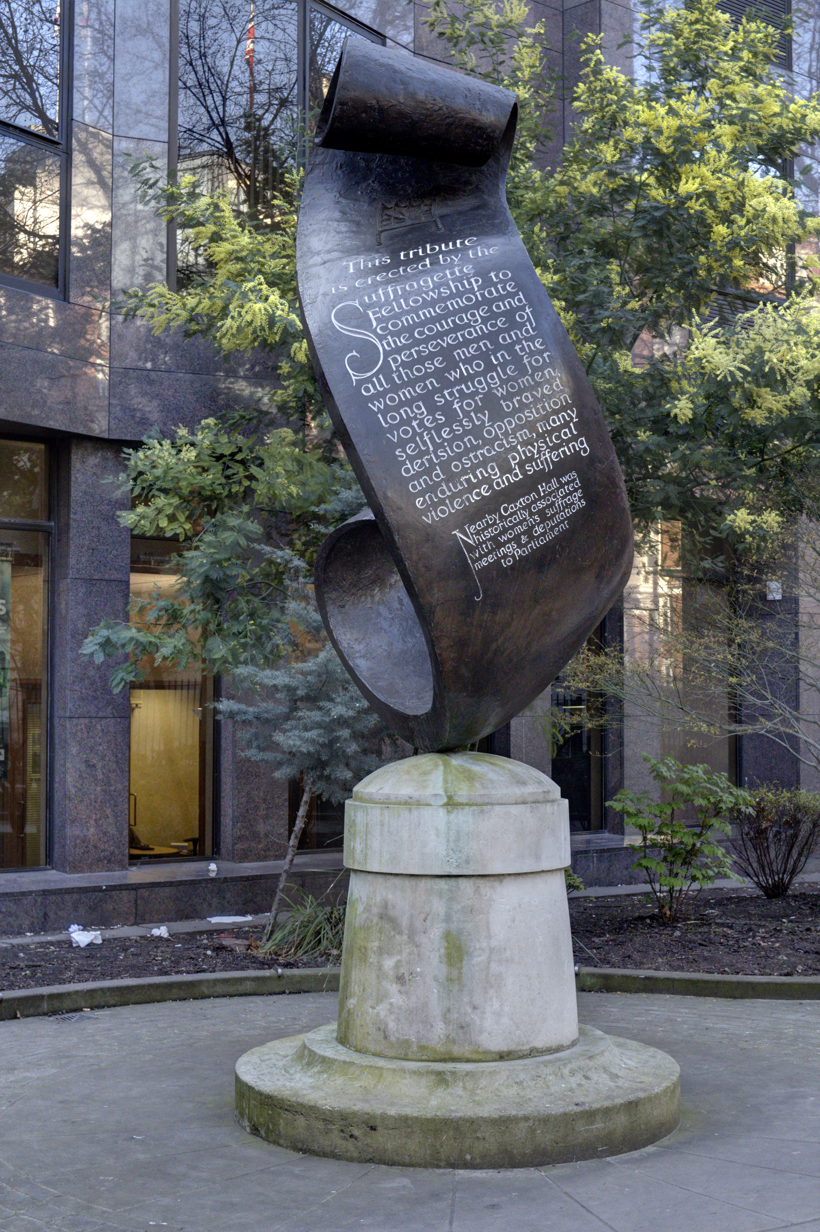 Suffragette Memorial, Christchurch Gardens, London